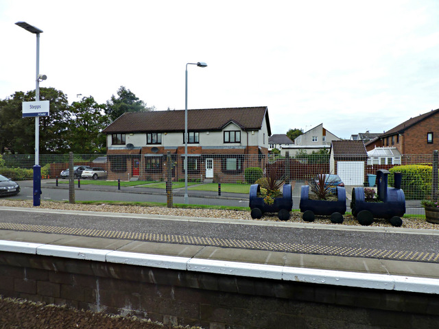 Stepps railway station